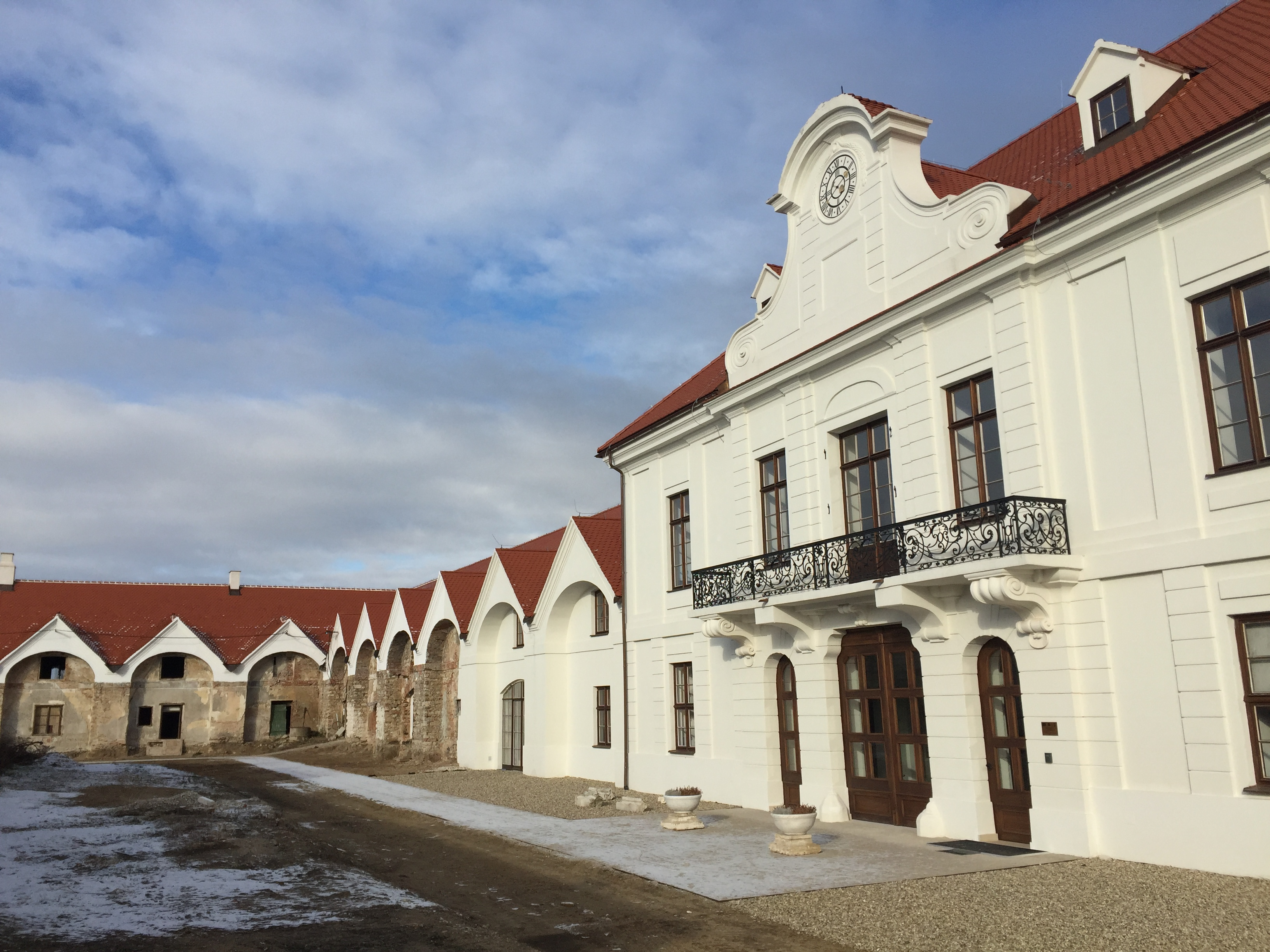 Stud farm in Kopčany, Slovakia. The Small château building.